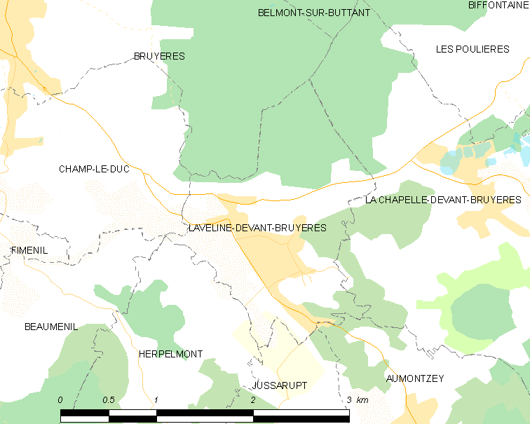 Map of French municipality Laveline-devant-Bruyères